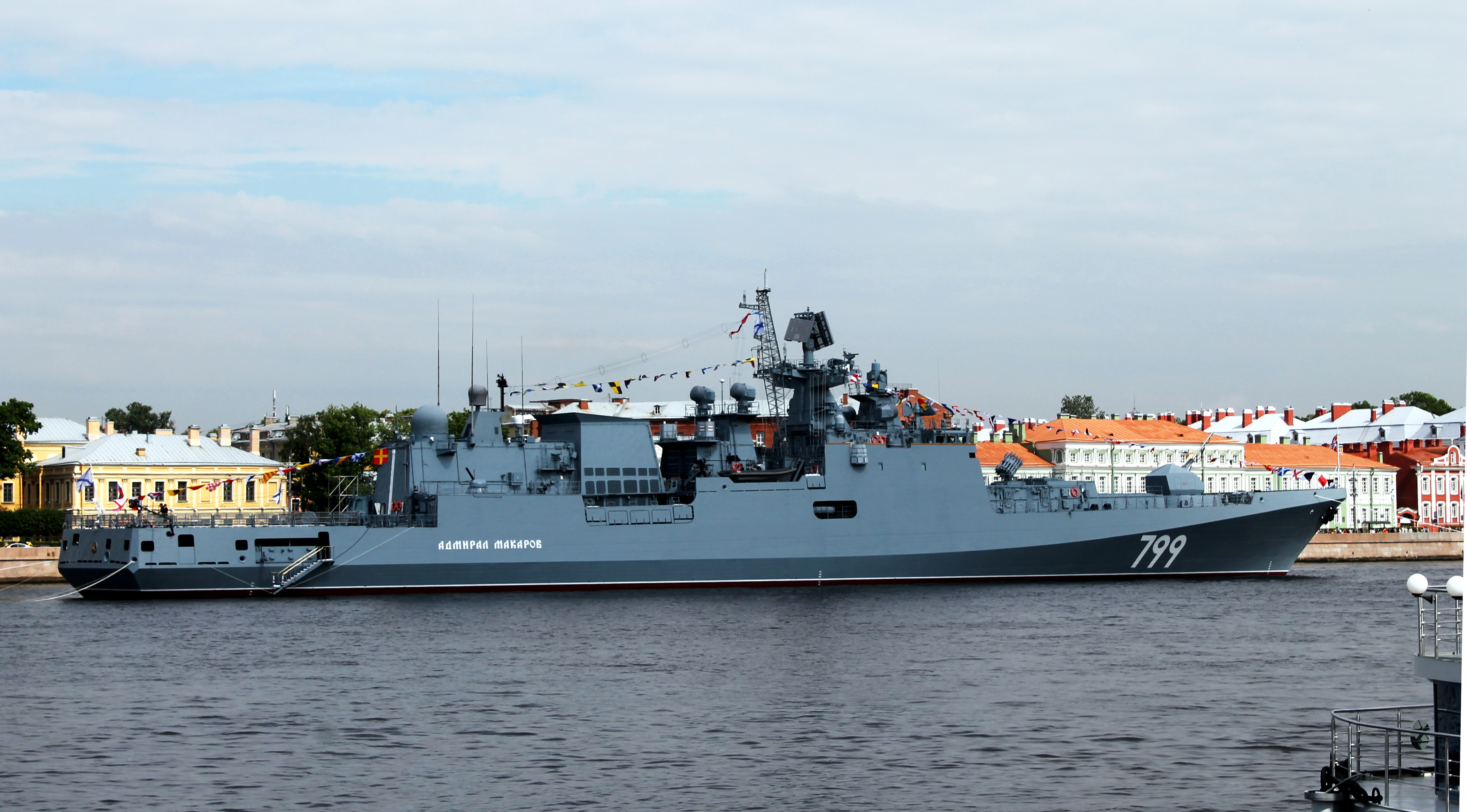 Russian Navy frigate «Admiral Makarov» (project 11356) on Neva River. St. Petersburg, July 28, 2017.